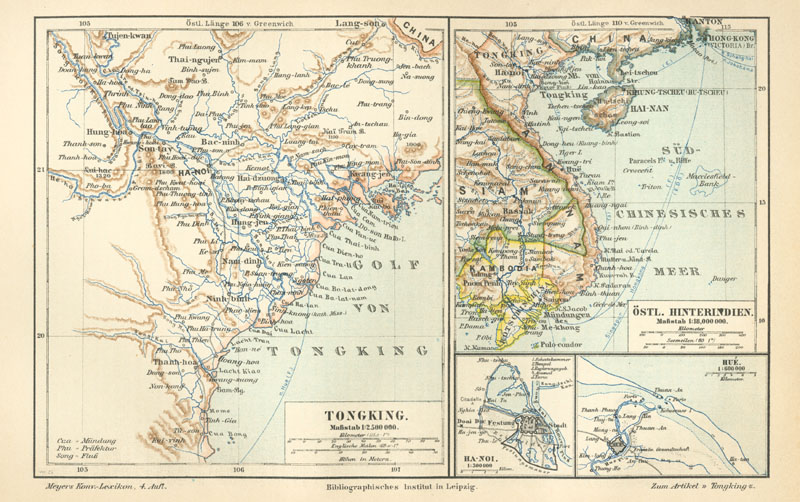 This is page 750 of 1044, in Volume 15 of the German illustrated encyclopedia Meyers Konversationslexikon, 4th edition (1885-1890), fraktur font.